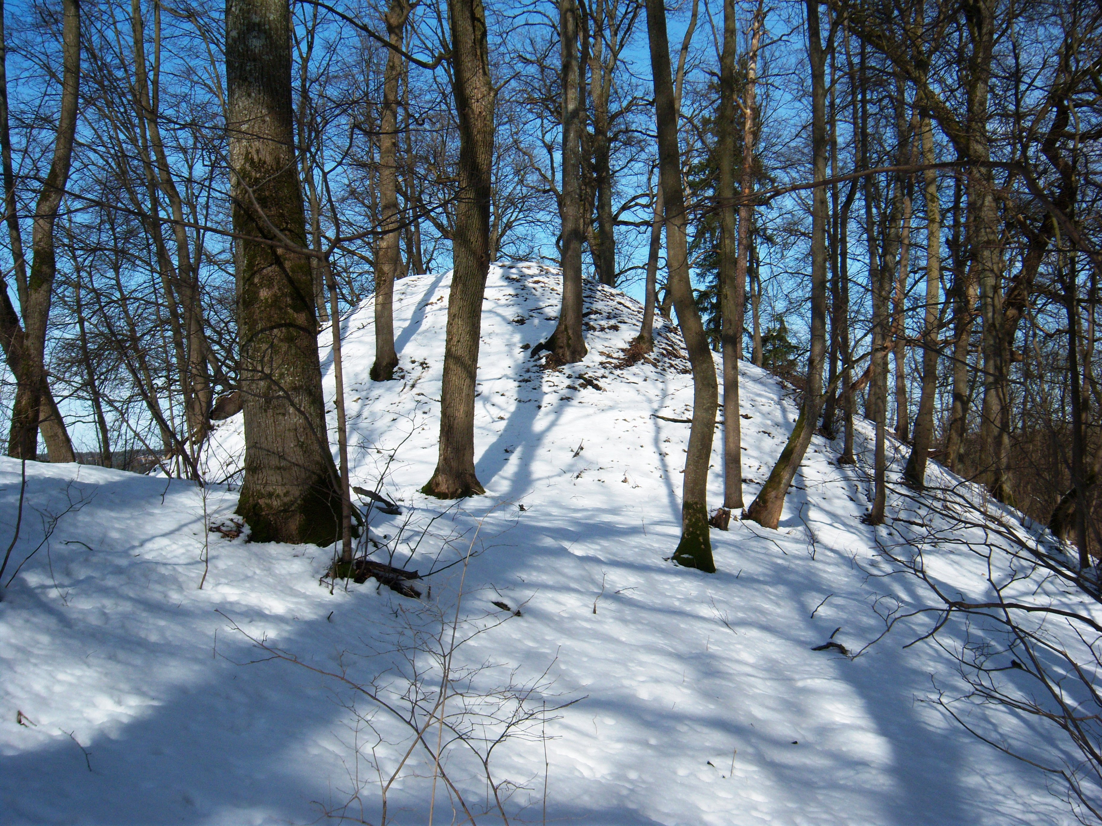 Marvelė hillfort, near Akademija, Kaunas, Lithuania